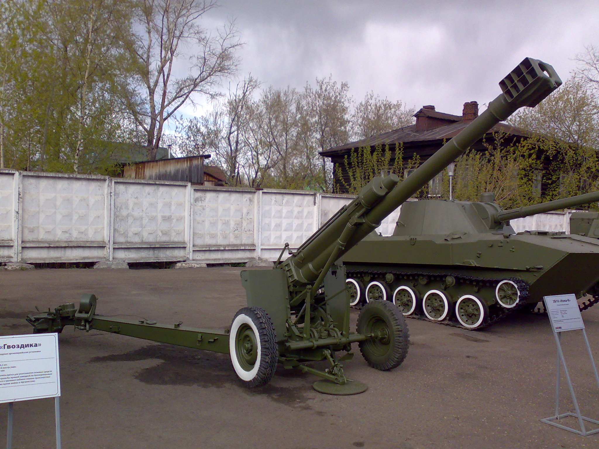 120-mm gun-howitzer-mortar. Motovilikha Plants museum in Perm. Russia.